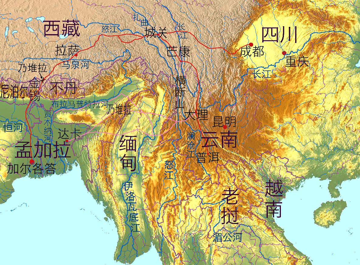 The Tea-Horse-Road, one of the ancient Tea routes, with variants itself. The courses are drawn according to a combination of informations from Chinaexpat: The ancient Tea-Horse-Road, and informations from Andrées Weltatlas from 1880, printed, when the route was a main traderoute, still.